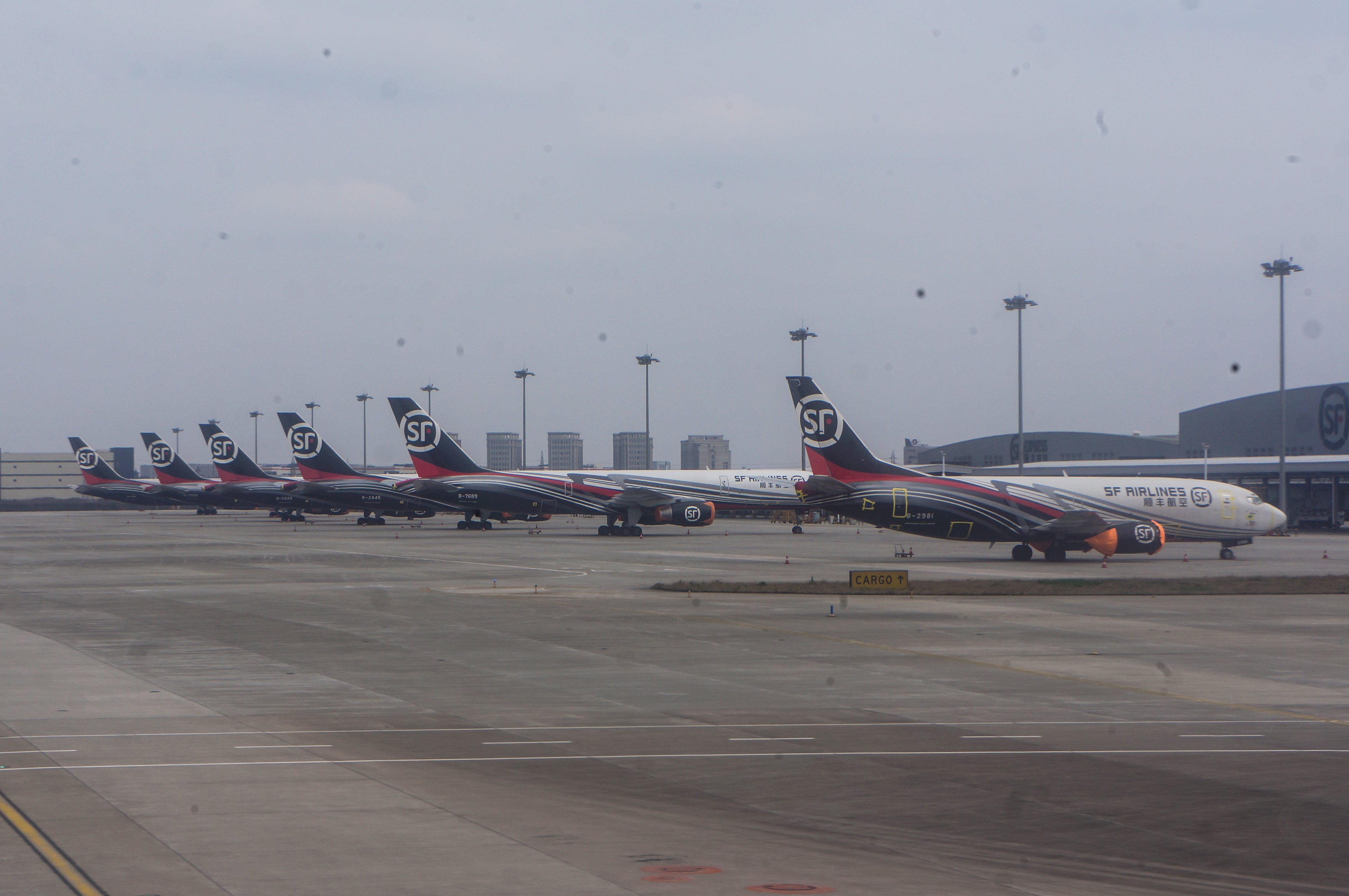 201701 SF Airlines fleet at HGH